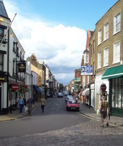 Eton High Street from Windsor Bridge.